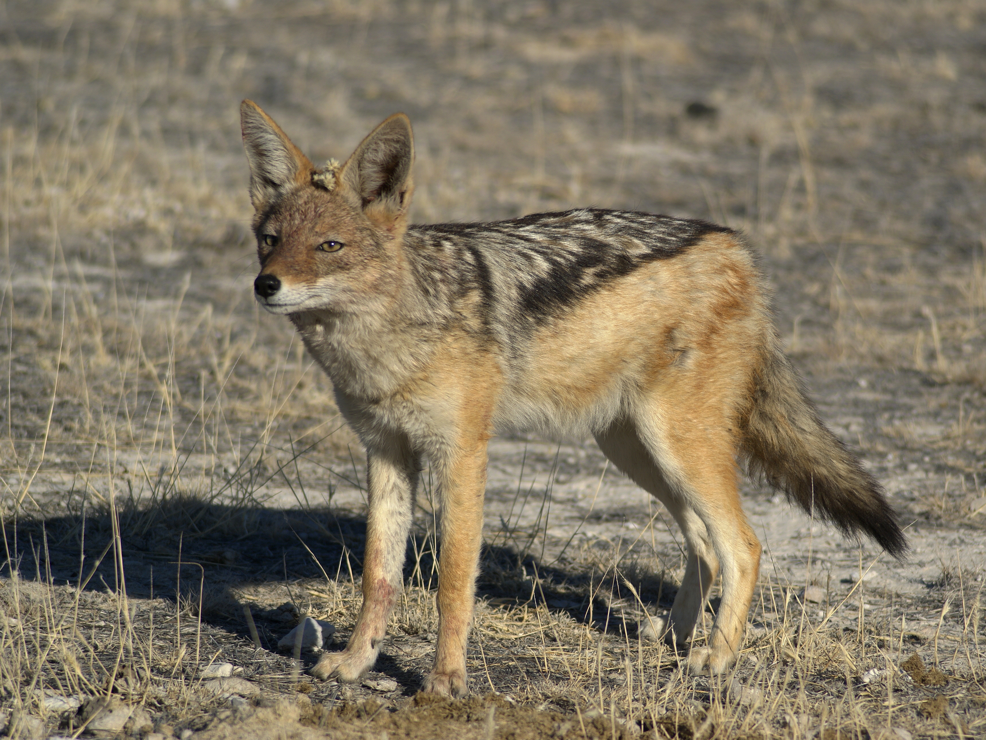 Black-backed Jackal near Wolfsnes, Western Etosha, Namibia